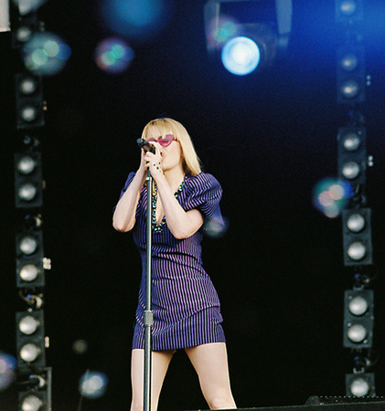 Alison Goldfrapp - Wireless Festival, June 2006, Hyde Park, London